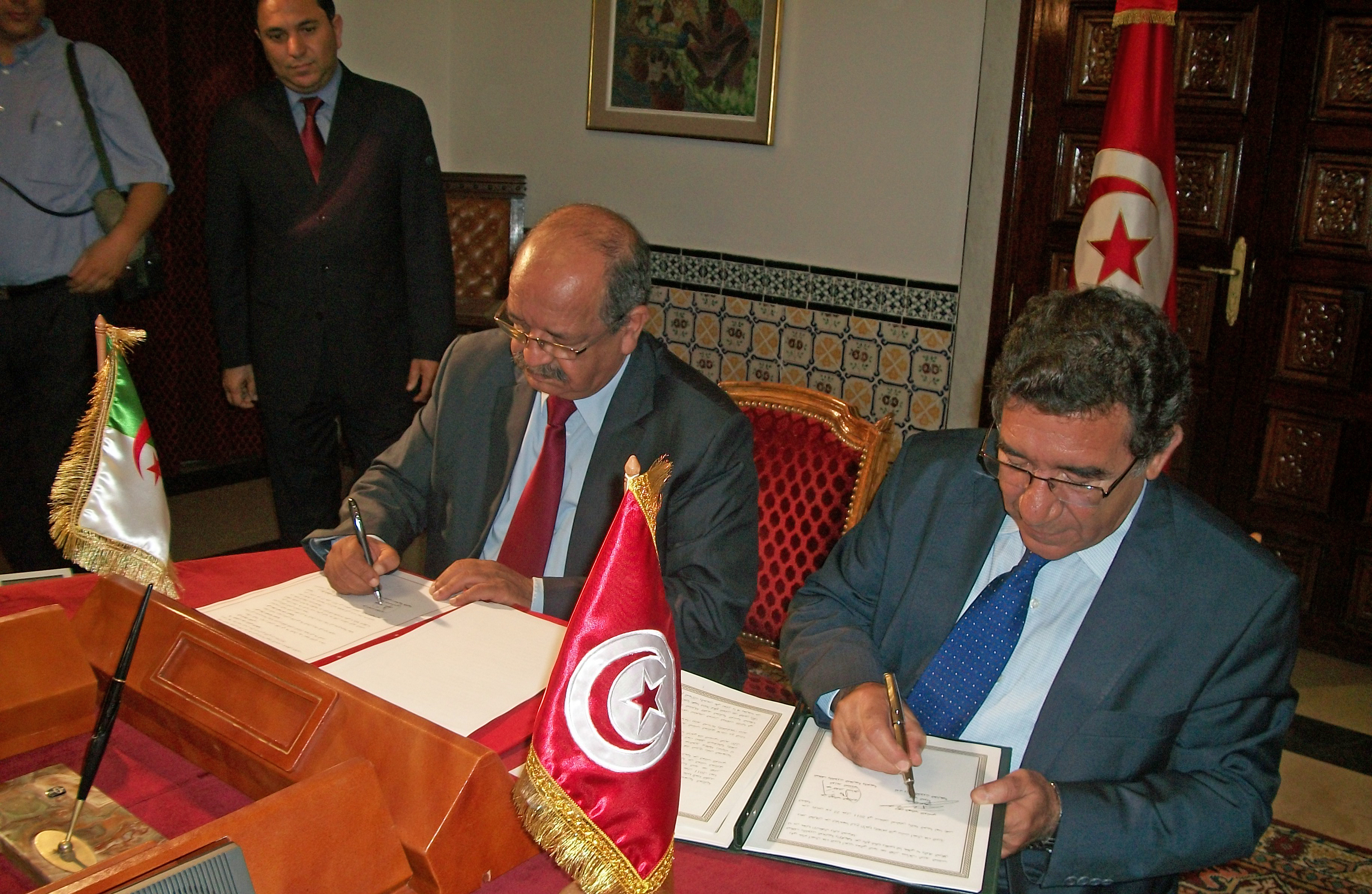 [Monia Ghanmi] Algerian Maghreb Affairs Minister Abdelkader Messahel (left) and Tunisian foreign affairs official Redouane Nouicer (right) co-chaired a bilateral co-operation committee session.